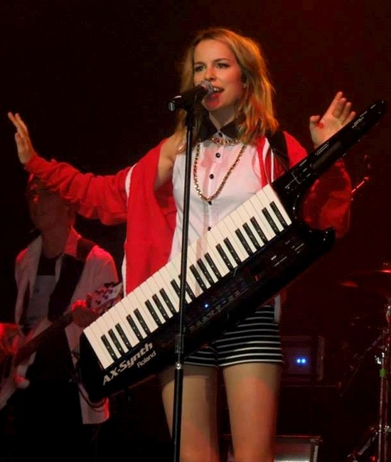 American singer-songwriter Bridgit Mendler performing on Uptown Theater, Kansas City, MO. July 22, 2013. Photo by Kelly Maslow